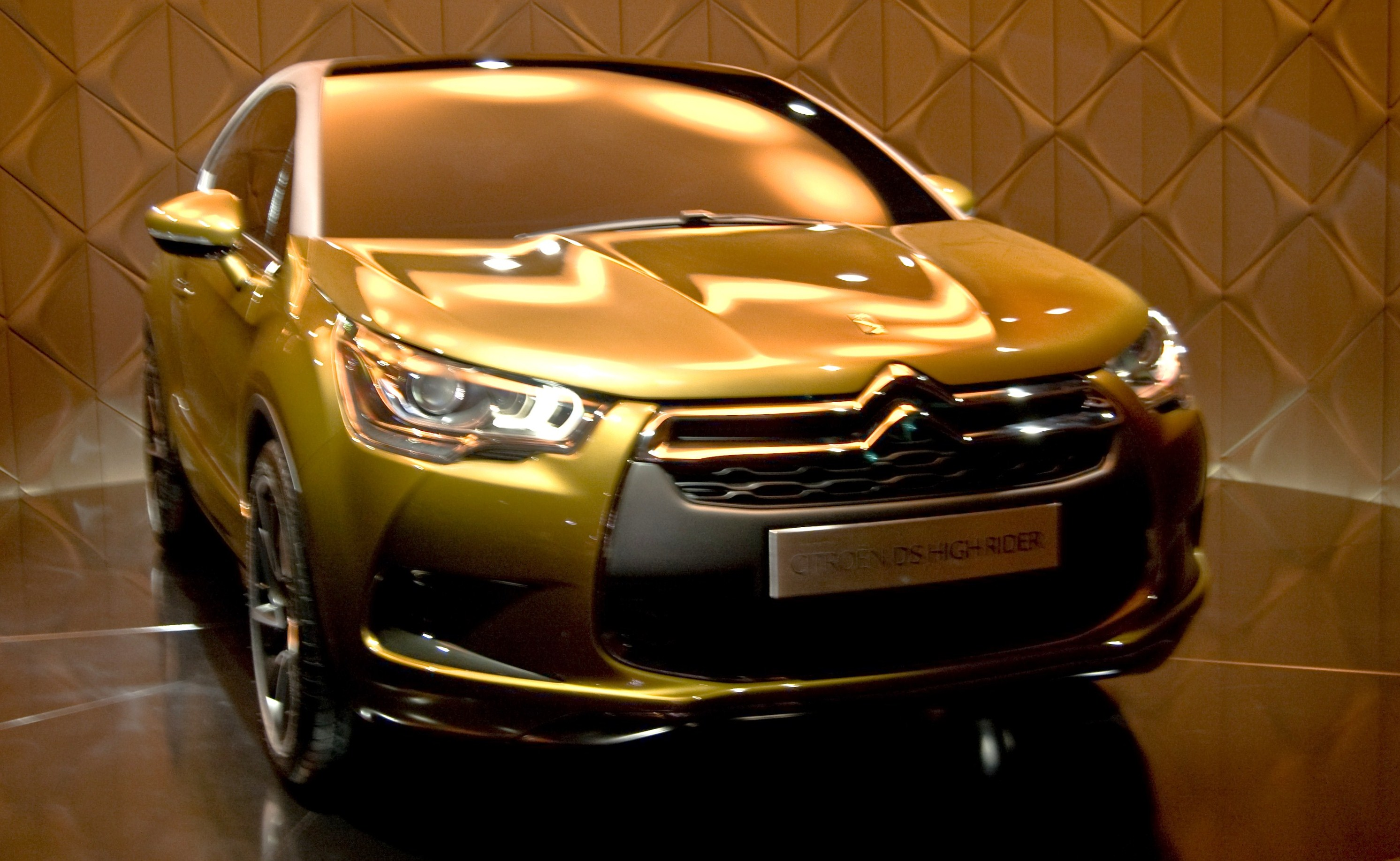 Citroën DS High Rider